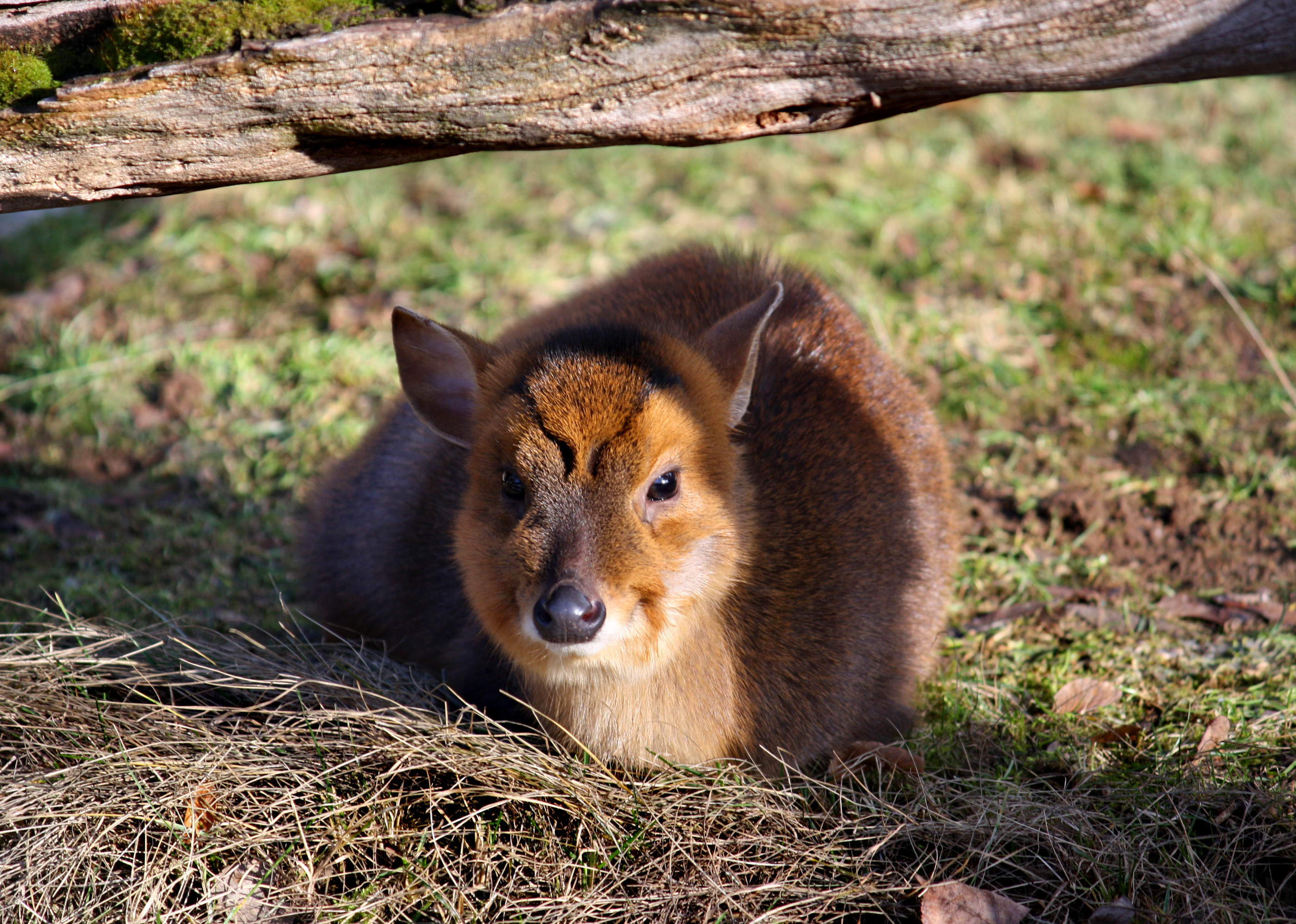 Young Reeves's Muntjac (Muntiacus reevesi) in Prague Zoo, Czech Republic